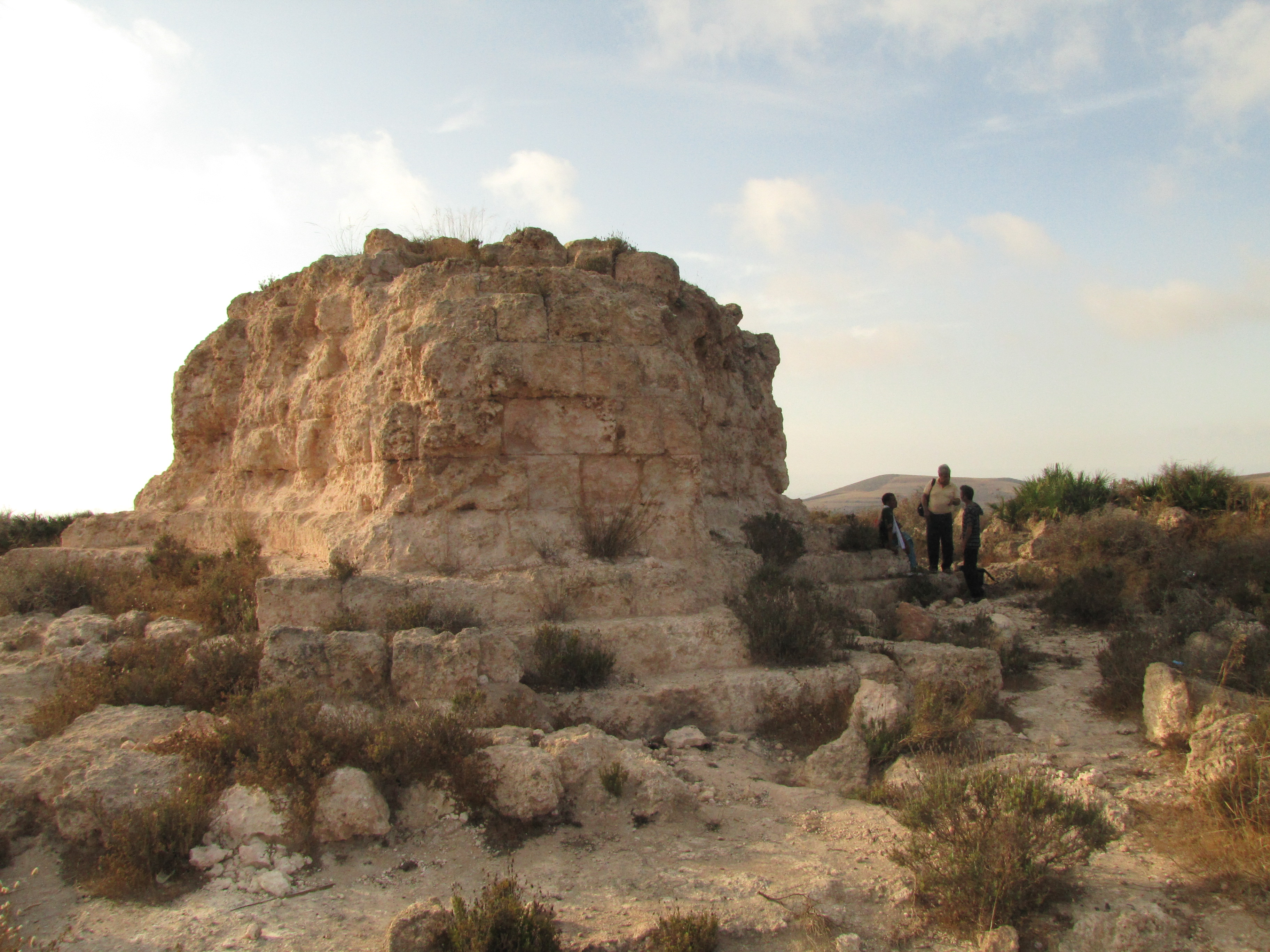 Tomb of Syphax (c.200 BC) at Batna, Algeria